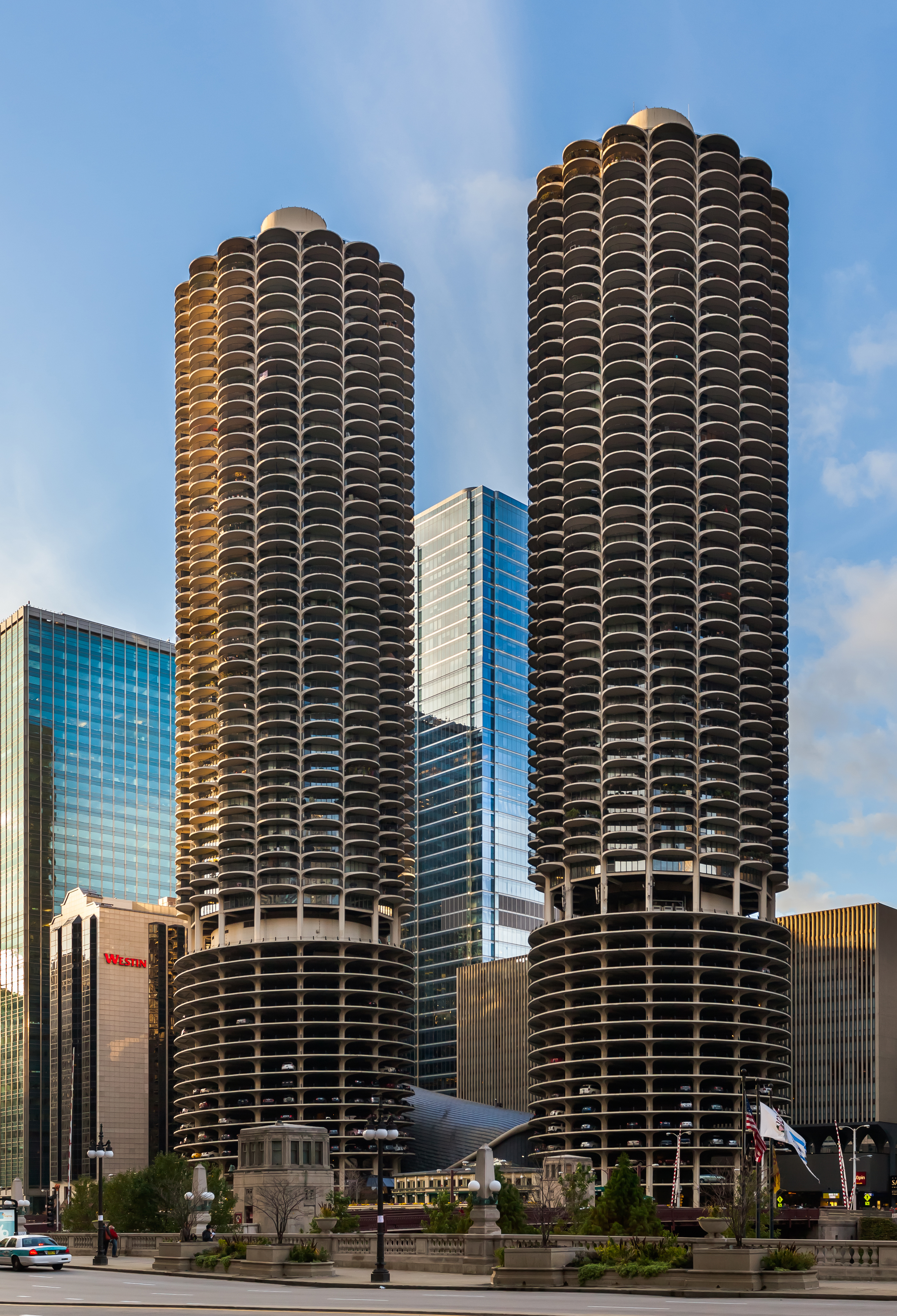 Marina City is a mixed-use residential/commercial building complex located in the center of Chicago, Illinois. It sits on the north bank of the Chicago River directly across from the Loop district. The complex, that was designed in 1959 by Bertrand Goldberg and completed in 1964, consists of two corncob-shaped 179 m, 65-story towers.